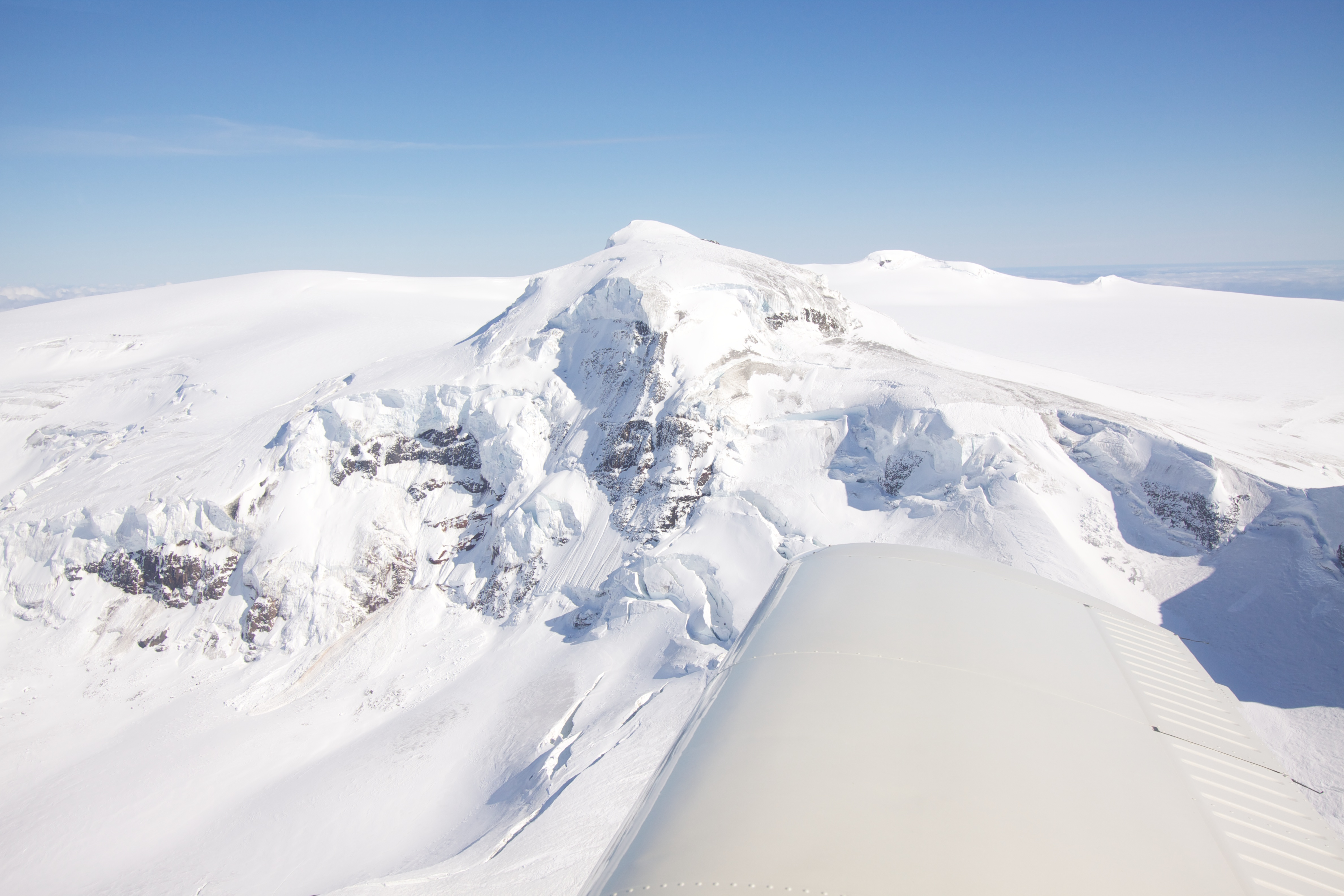 Aerial photo of Hvannadalshnúkur, Vatnajökull, Iceland